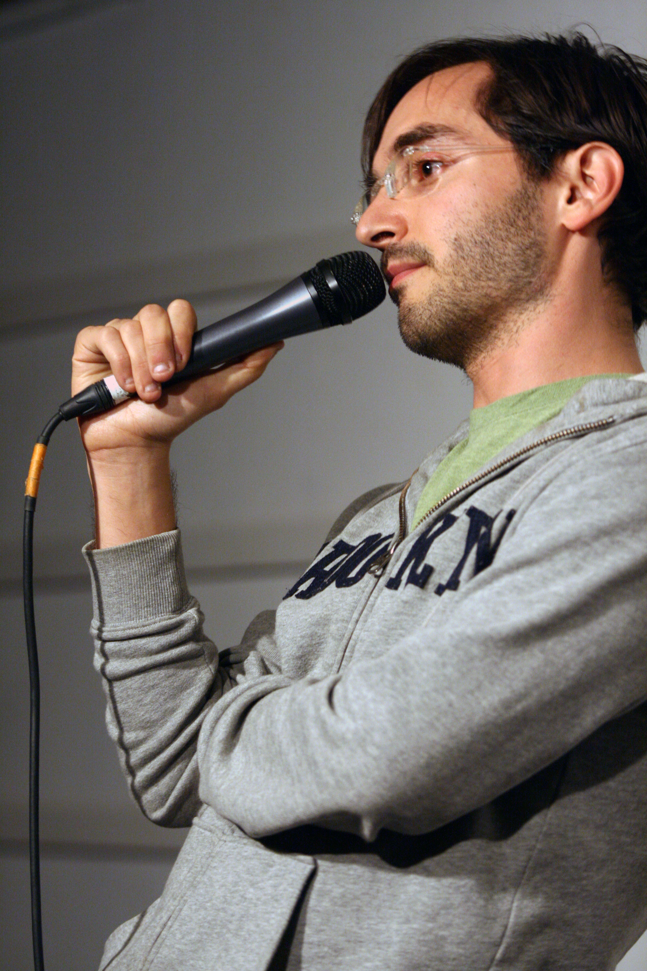 Myq Kaplan gives his take on the death of Jesus Wednesday at the Meltdown. 12.7.11 © Atrossity Photography